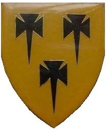 SADF era Lindley Commando emblem